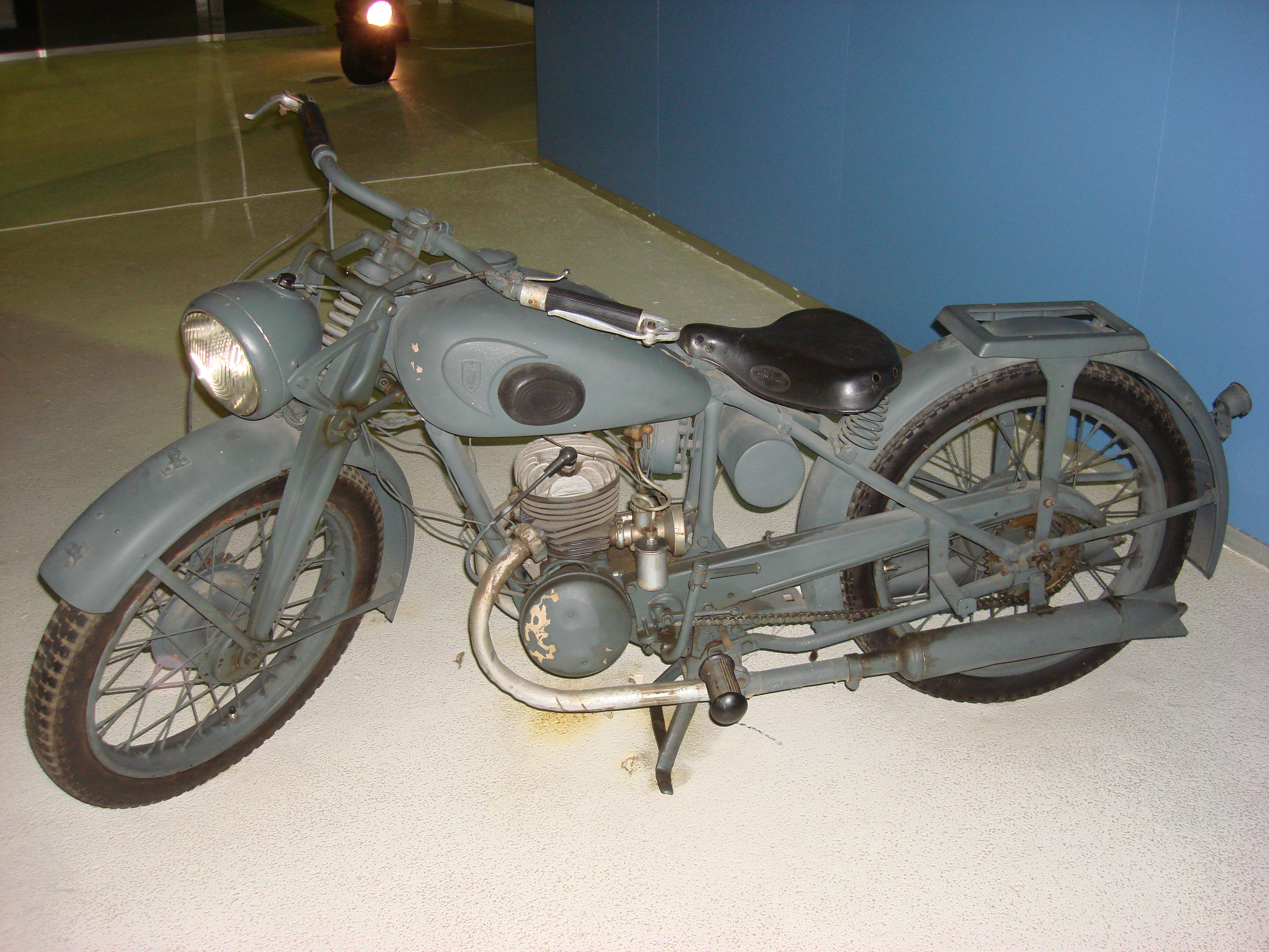 Zündapp DB200 motorcycle in the RAF Museum London